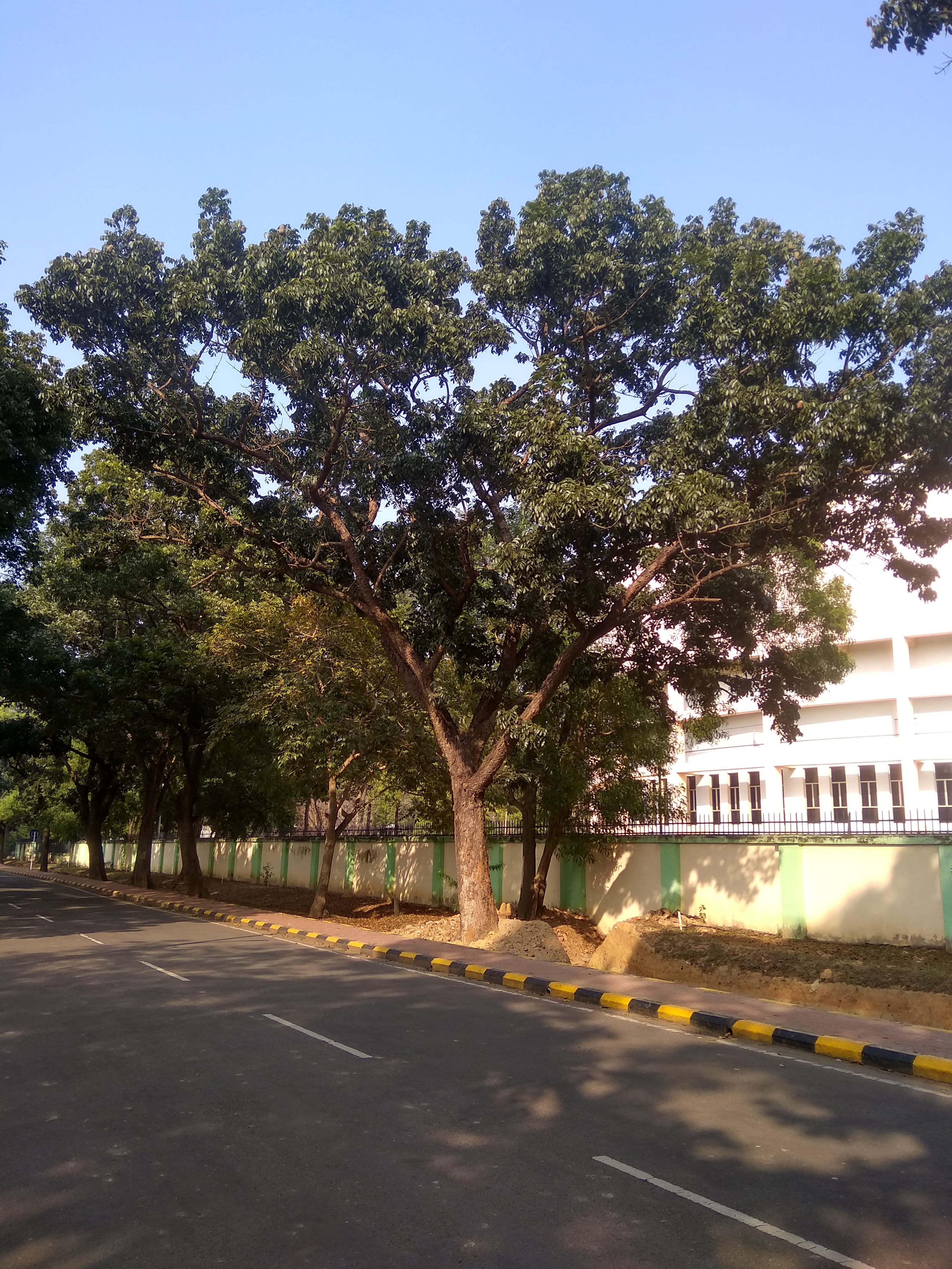 Foliage of a Mahogany tree during December at IIT Kharagpur, India